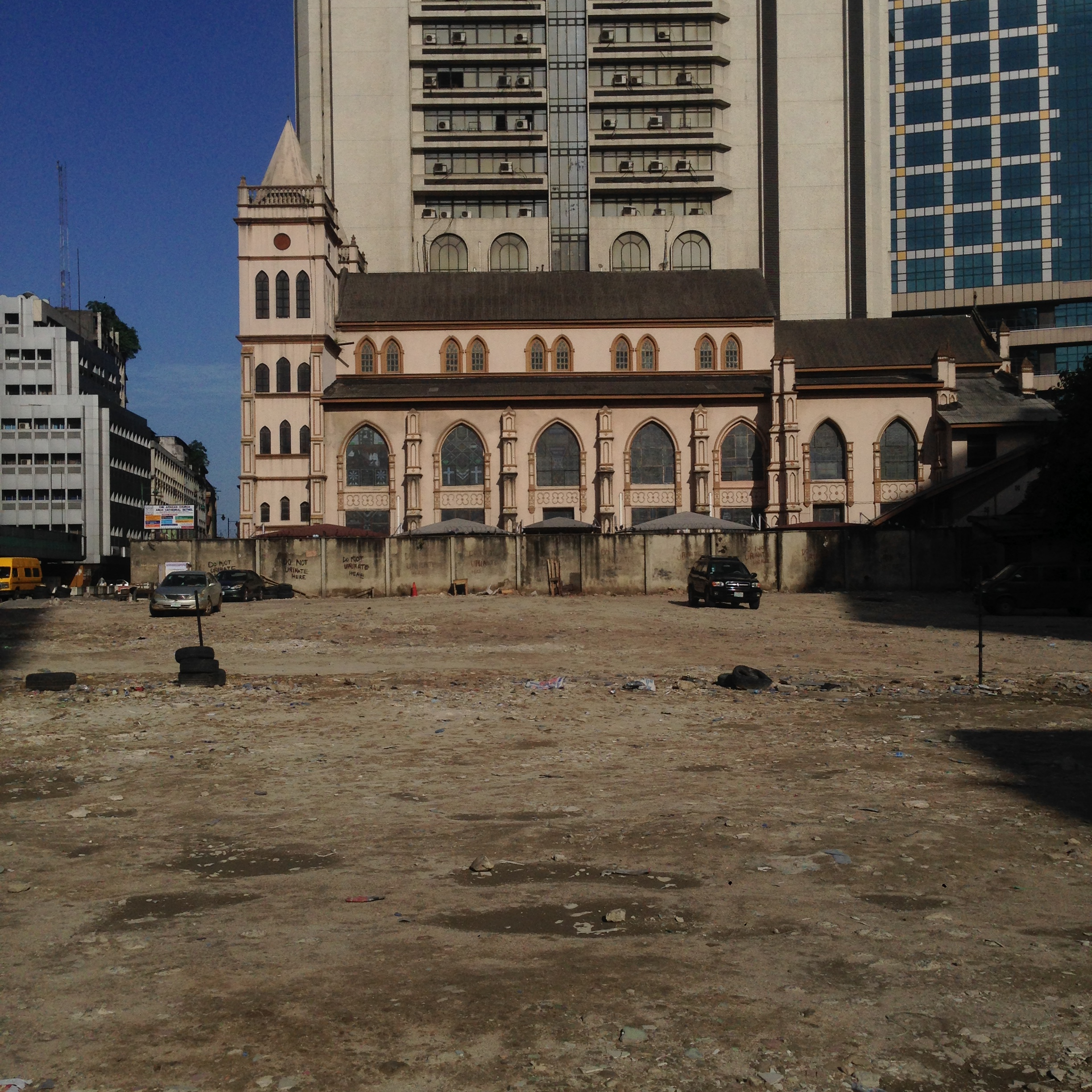 Postern view of Bethel Cathedral